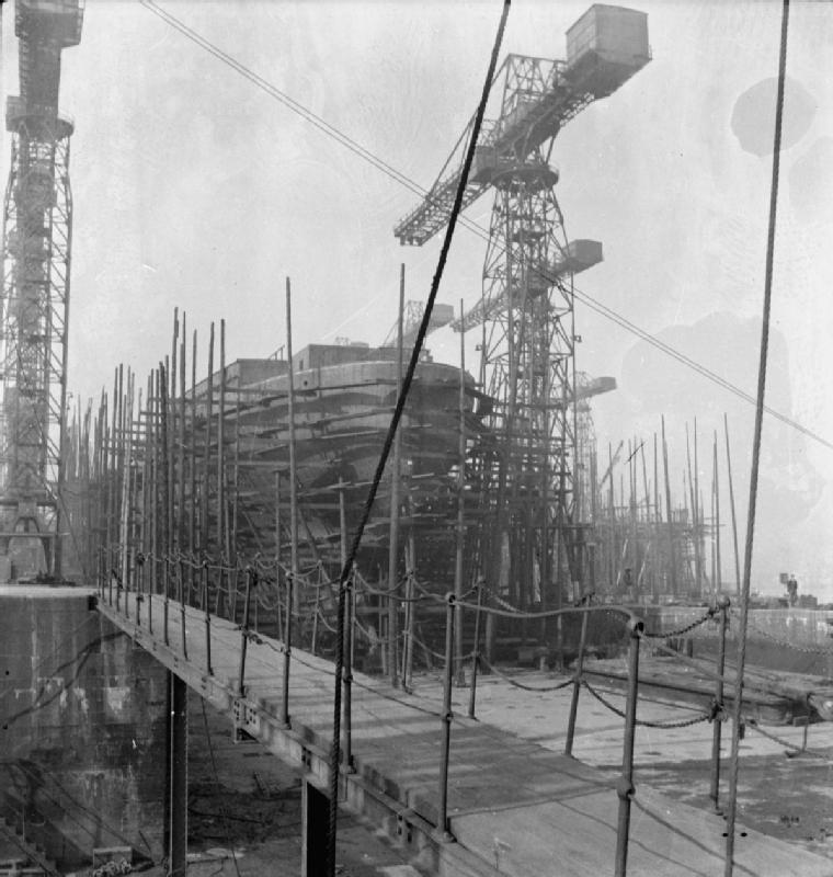 Cecil Beaton Photographs- Tyneside Shipyards, 1943 A ship on the stocks in a slipway of the Walker Naval Yard of Vickers Armstrong.